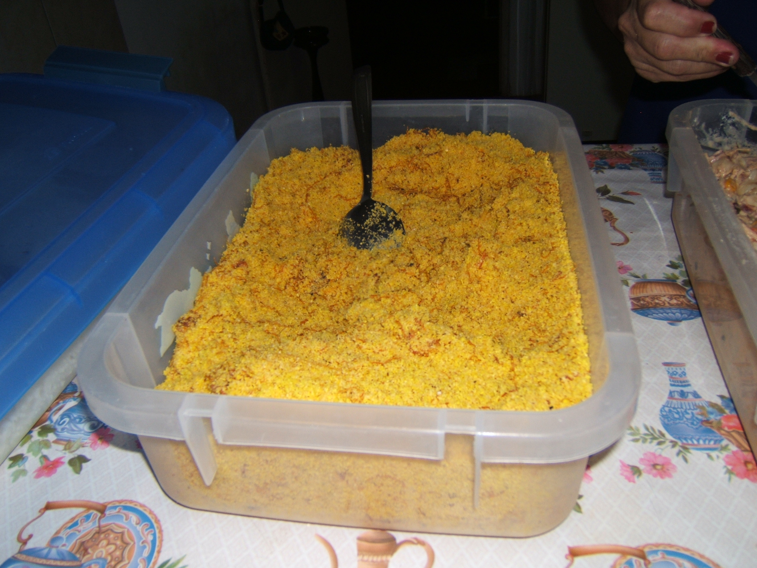 Typical dishe from Brazil.